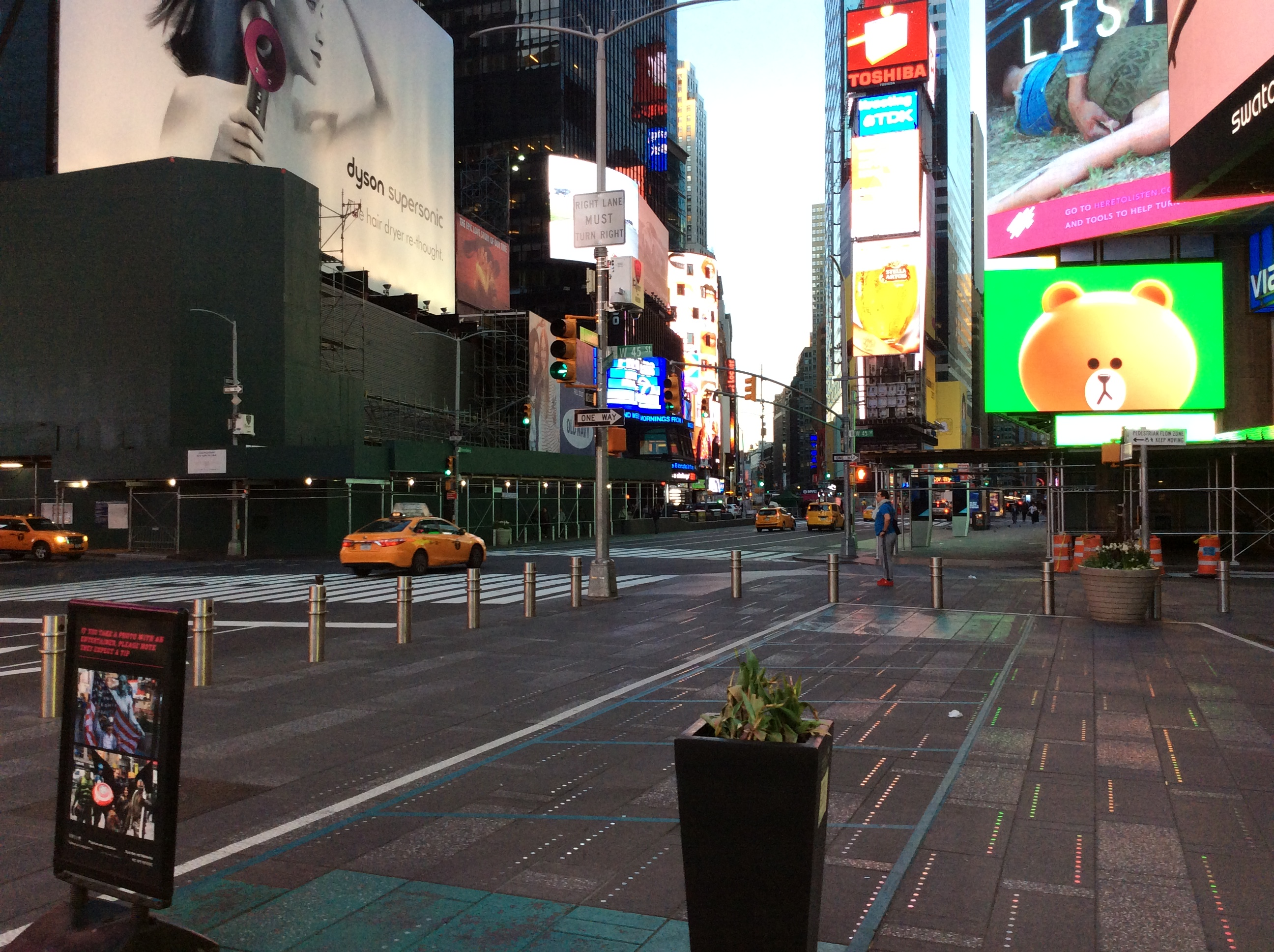 Times Square in Manhattan, April 2017